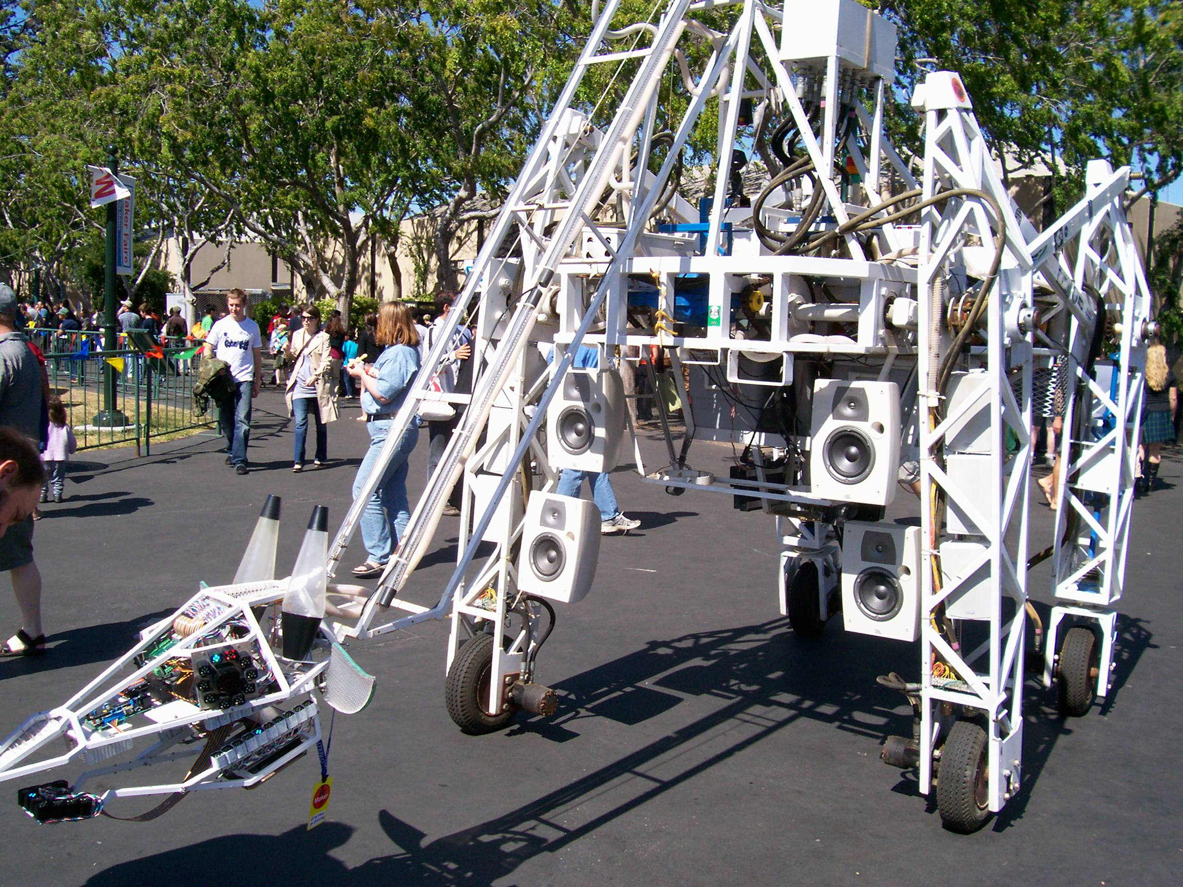 This was a big hit last year, and made a return appearance.